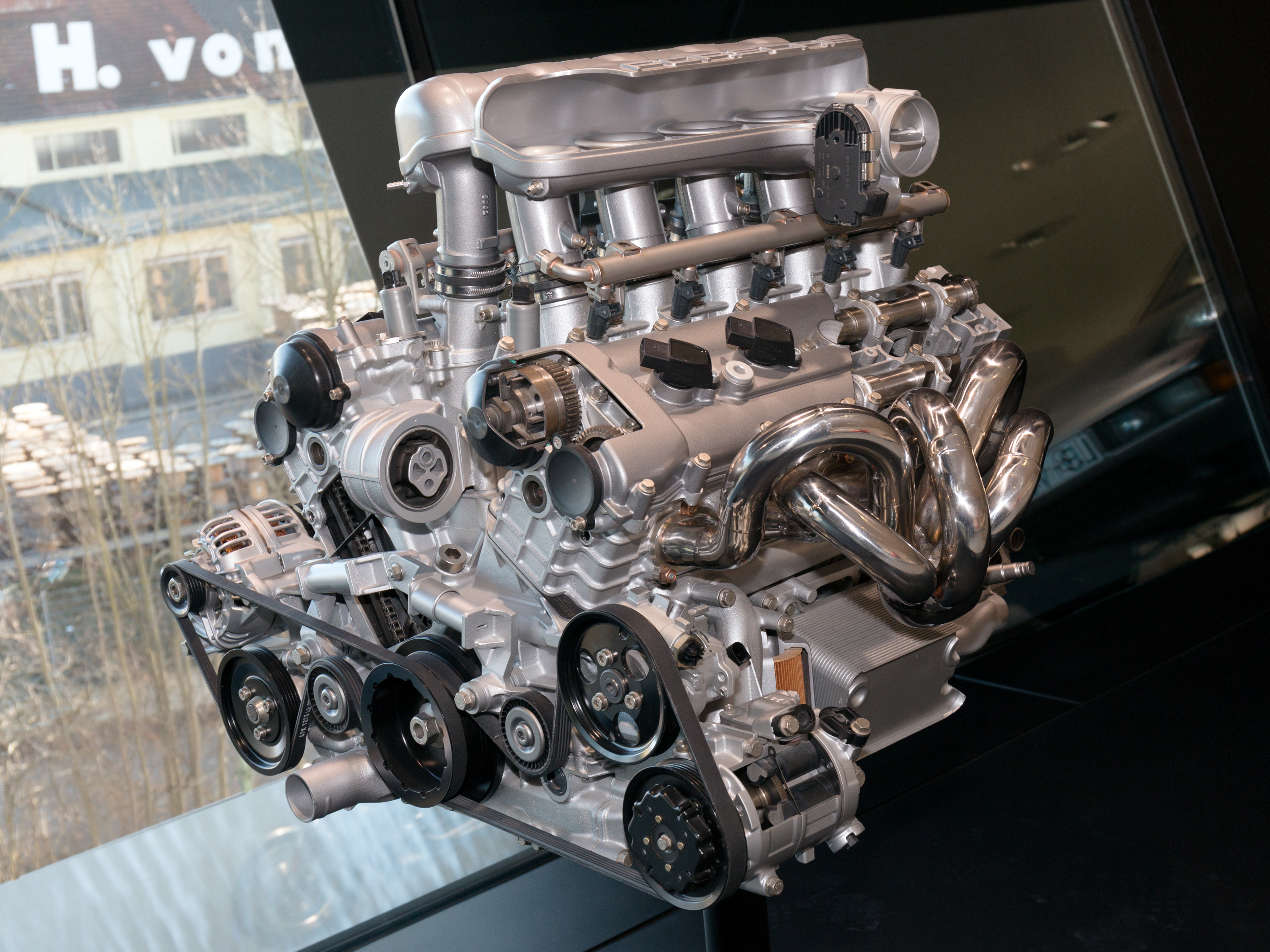 2004 Porsche Carrera GT engine